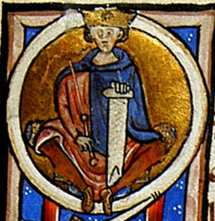 Alfonso Jordan (1103-1148), count of Toulouse (1112-1148), depicted on a historiated initial from the first cartulary of the City of Toulouse, 1205 (Cartulaire de la Cité. Registre parchemin, Ville de Toulouse, Archives municipales, AA 2, 13°S, detail).